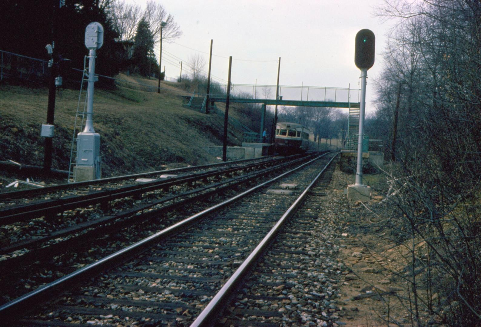 A view of the Parkview station on the Philadelphia & Western line, also known as the Norristown Line. The view is looking in the Norristown direction of a train on its way to 69th Street Terminal. Seen is a famous Brill Bullet car.